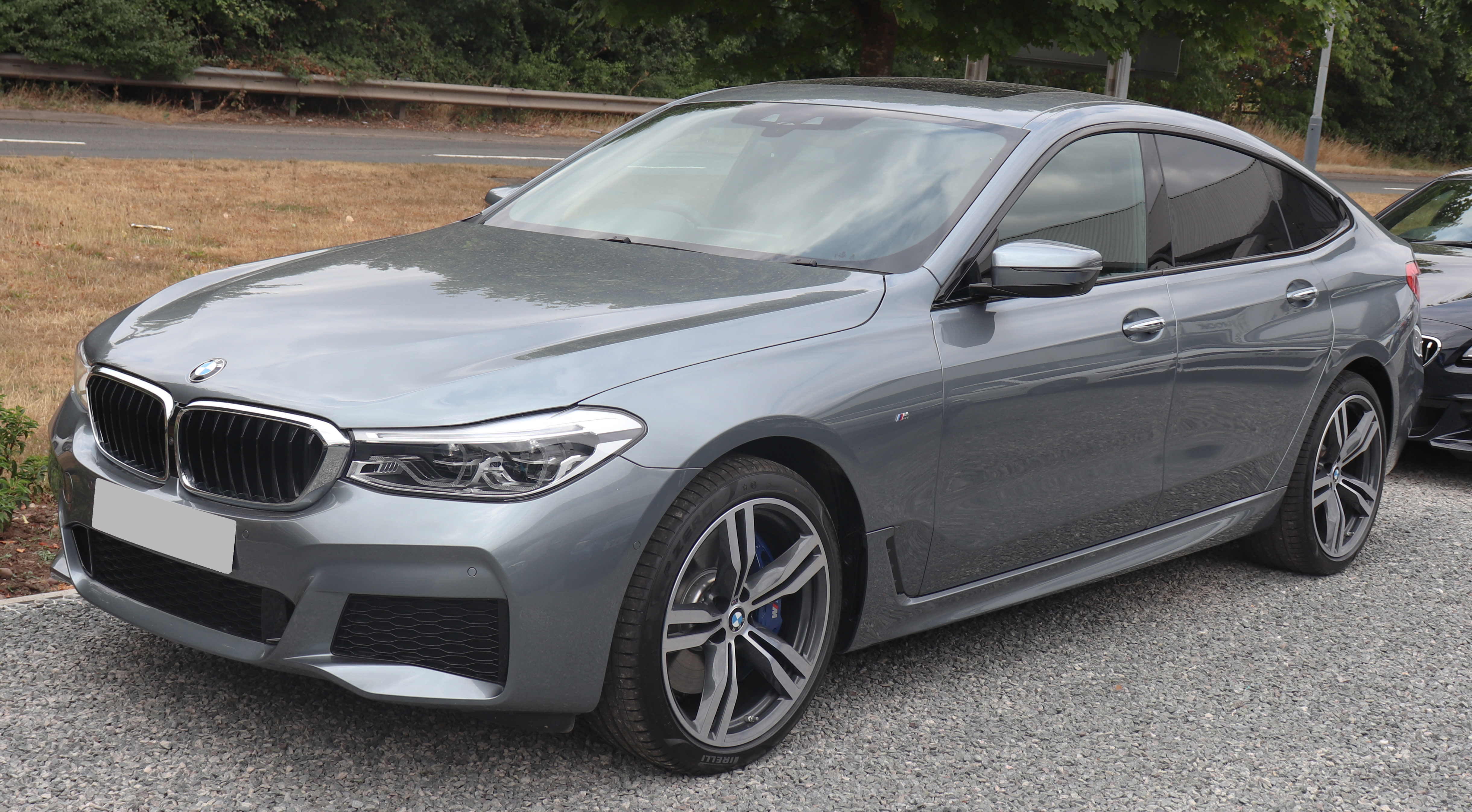 2018 BMW 630d GT M Sport Automatic 3.0 Front Taken in Leamington Spa